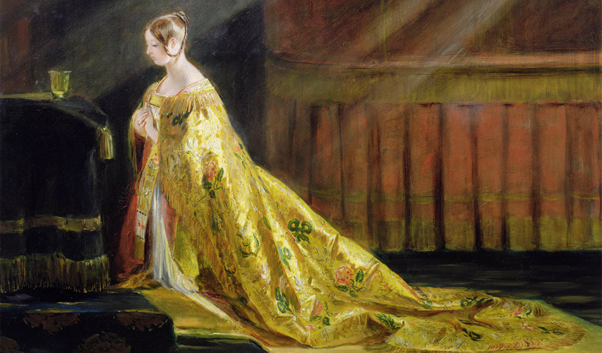 Queen Victoria at her coronation in 1838 wearing her robes (painted some time after the event).